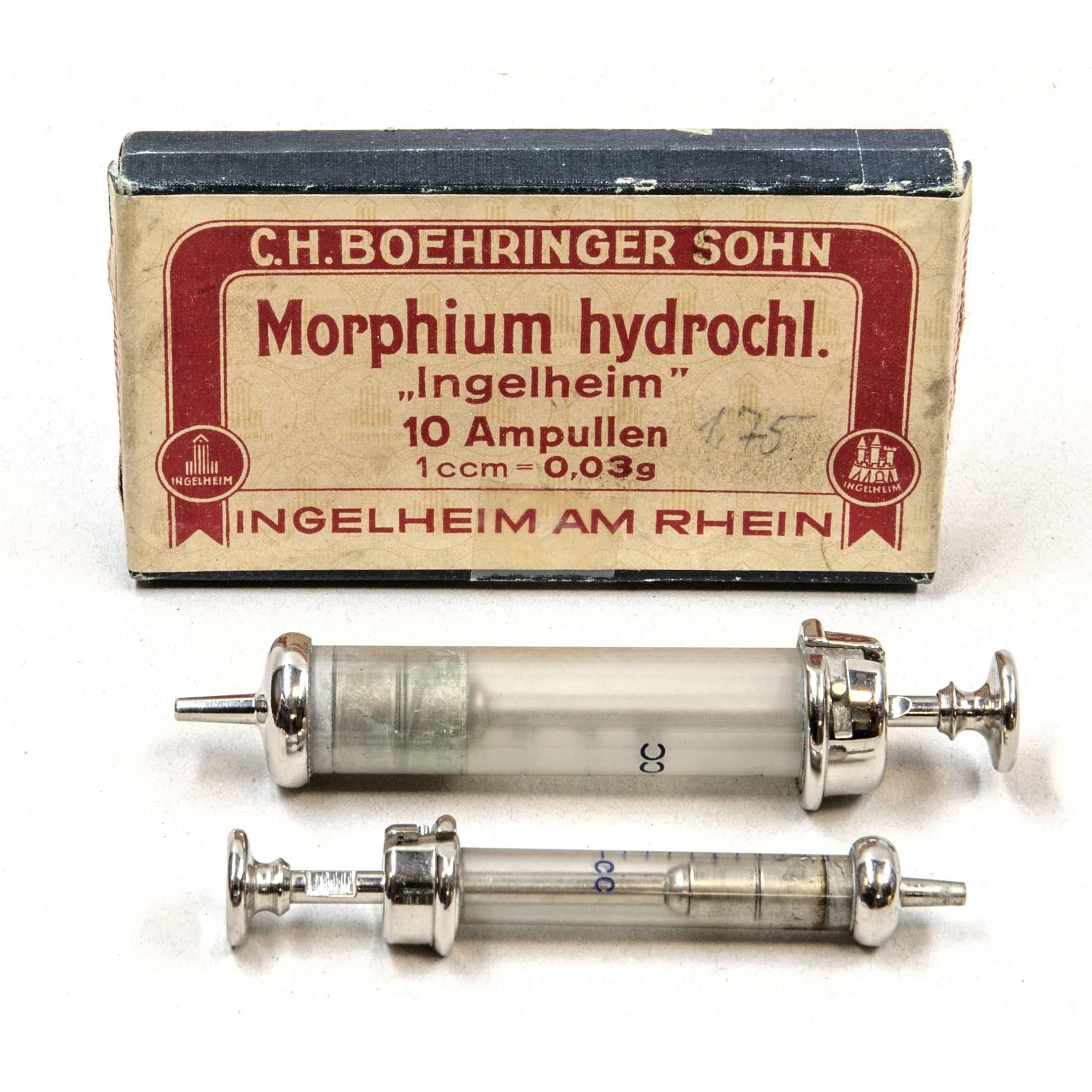 Pharmaceutical product (Morphium) from the early 1950th with syringes